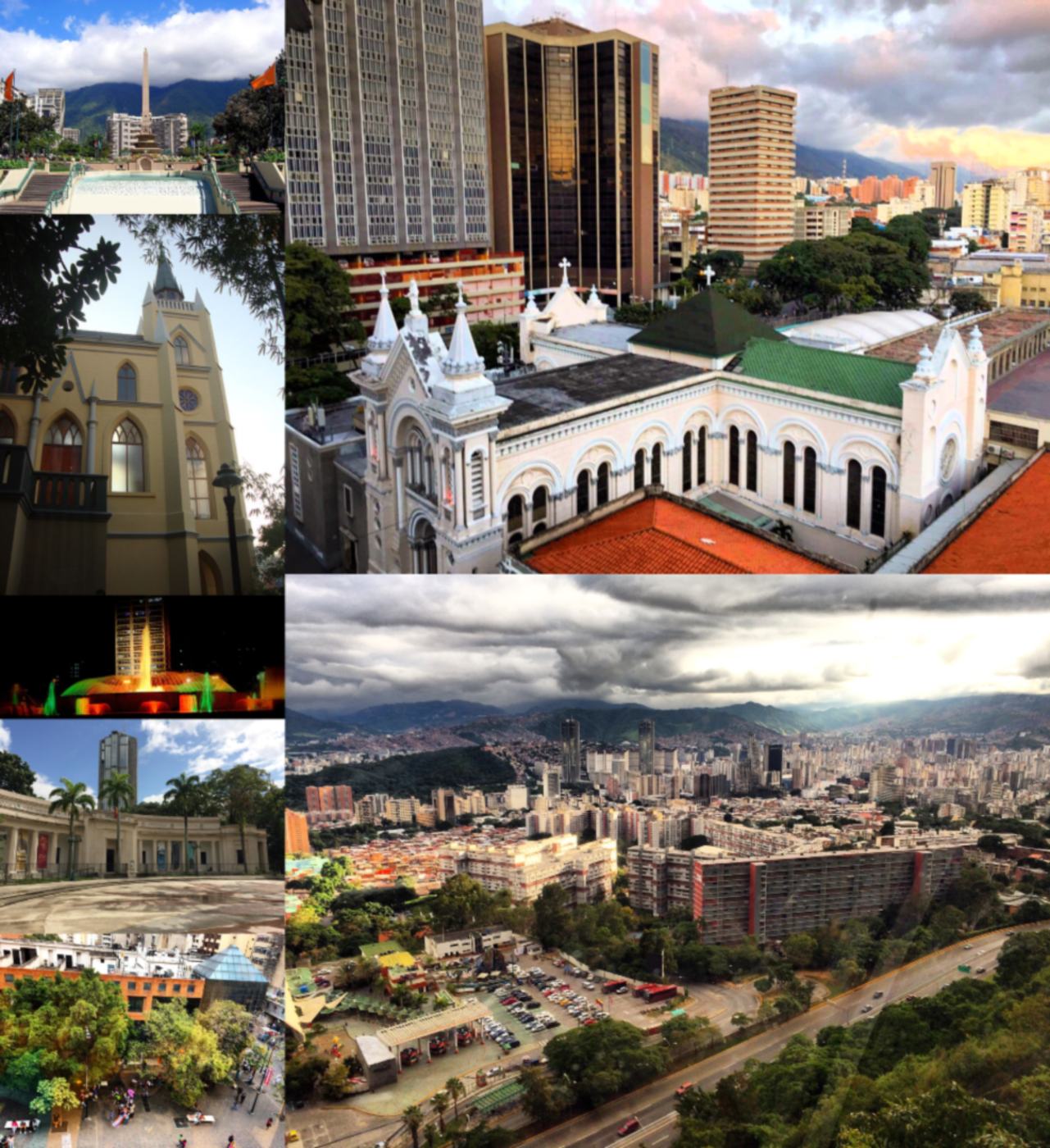 Collage of photos (Caracas, VE)